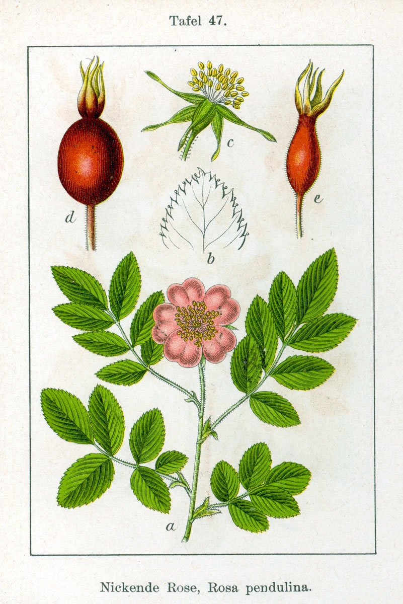 Rosa pendulina L. Original Description Nickende Rose, Rosa pendulina